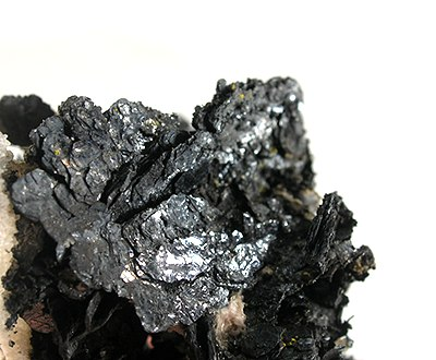 Nagyágite Locality: Nagyag, Sacarimb, Romania Size: small cabinet, 7.5 x 4.6 x 3.7 cm Nagyagite Nagyagite is a LEAD/GOLD/TELLURIUM/ANTIMONY sulfide This amazingly rich specimen of nagyagite is quite simply the best I have ever seen for sale by a long shot. It is an extremely rare mineral and this is from the type locality, probably dating to the 1800s if not before. It is covered on both sides bu sharp, freestanding crystals to an inch in size, and is a very 3-dimensional piece. Not only is it better than any other i have seen , at least for sale, but it also has more nagyagite than any number of other specimens combined. It is , in fact, almost a solid growth of arborescent nagyagite completely covering the matrix. This piece has some xeroxes of old labels (not originals) indicating some possible historical pedigree and is clearly one of the more important specimens in the update irregardless of the details in that regard. This piece came out at Tucson in a suite of natives "said to be" from the John Marshall Collection, though perhaps a mixup occurred because subsequent contact with John proves otherwise. I have noted this explicitly only because i previously had the piece attributed to him on this site. It is not so.